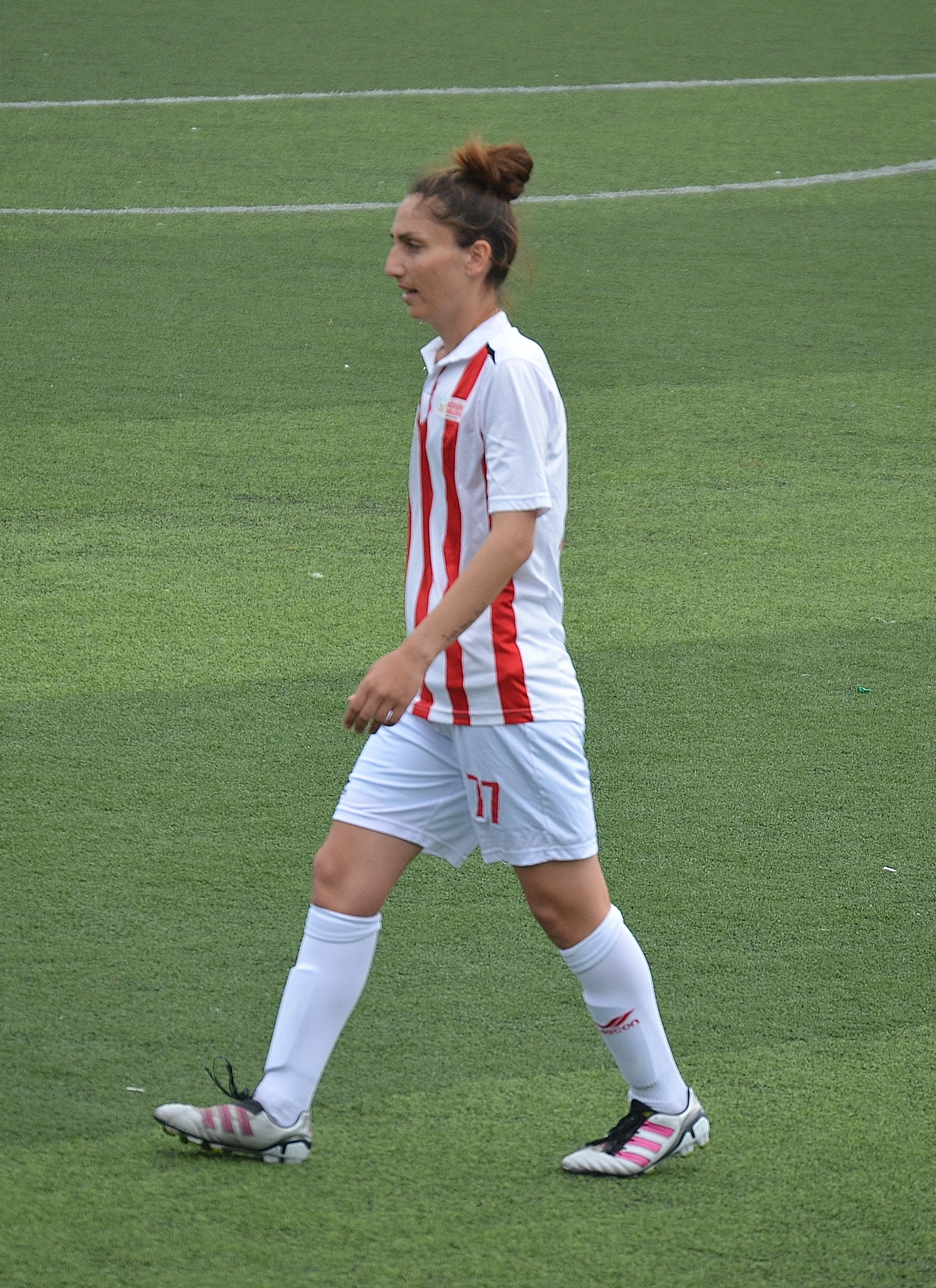 Reyhan Şeker for Ataşehir Belediyespor in the 2014-15 season